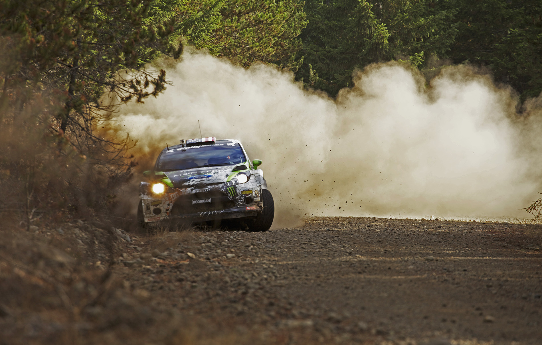 Ken Block and co-driver Alex Gelsomino in their 2012 Ford Fiesta MK6 at the 2012 Olympus Rally in Washingston State. Round 6 of the 2012 Rally America National Championship.